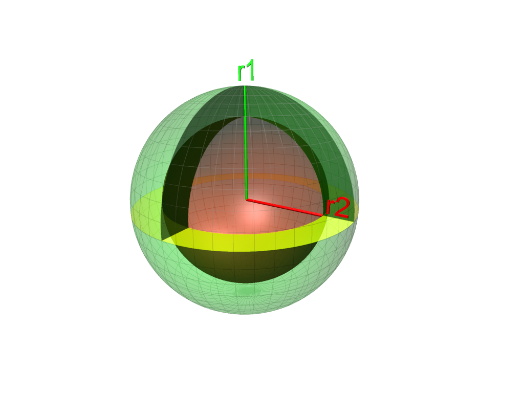 Illustration of the geometrical hollow sphere